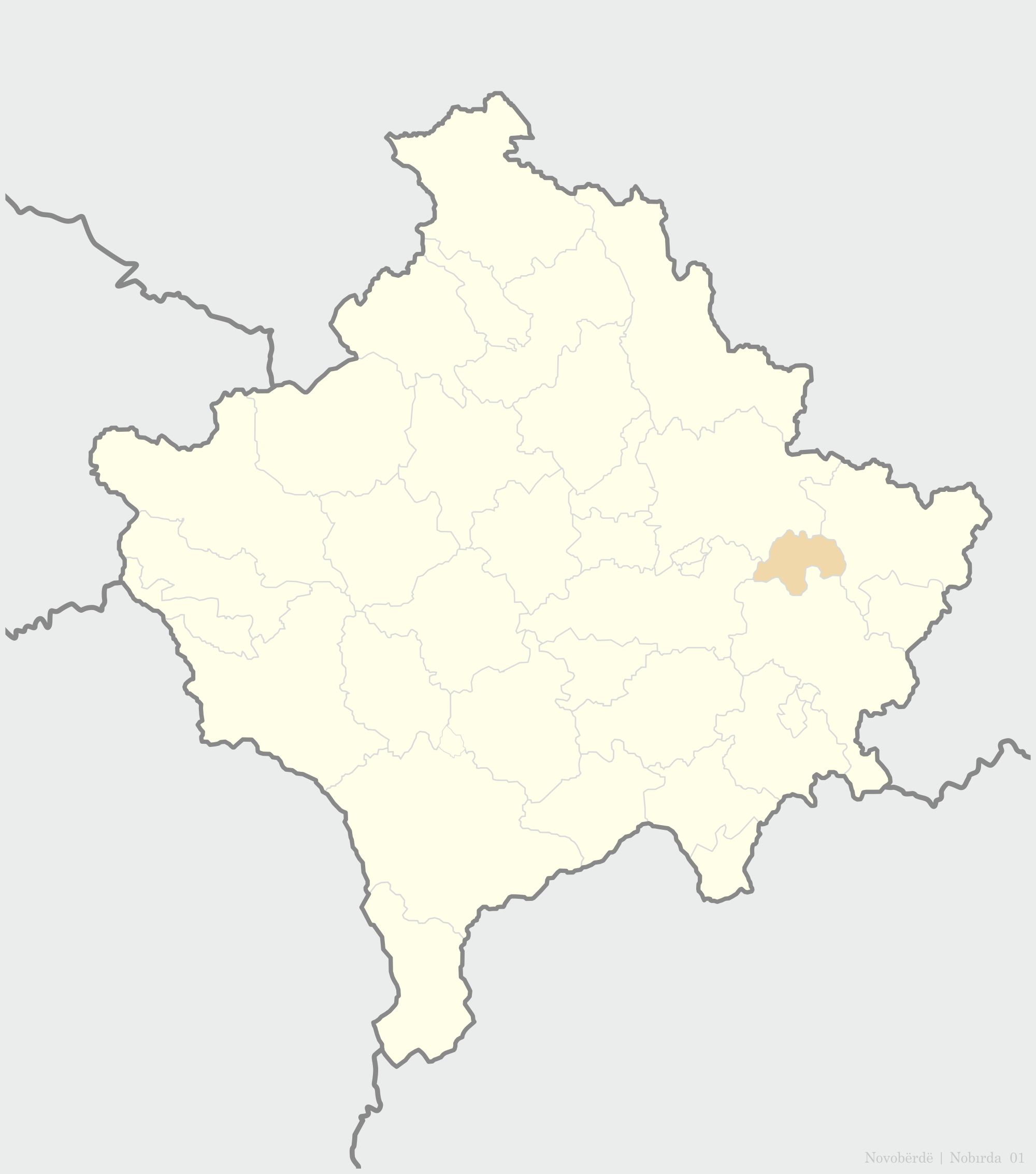 Municipality of Novobrdo map